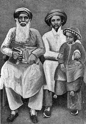 Group of Beni-Israel in Ancient Costume. XIXth century.